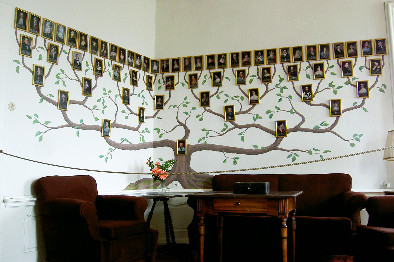 Český Šternberk Castle, Czech Republic. Portraits of six generations of Sterberg family in Jiří Sternberg's study.